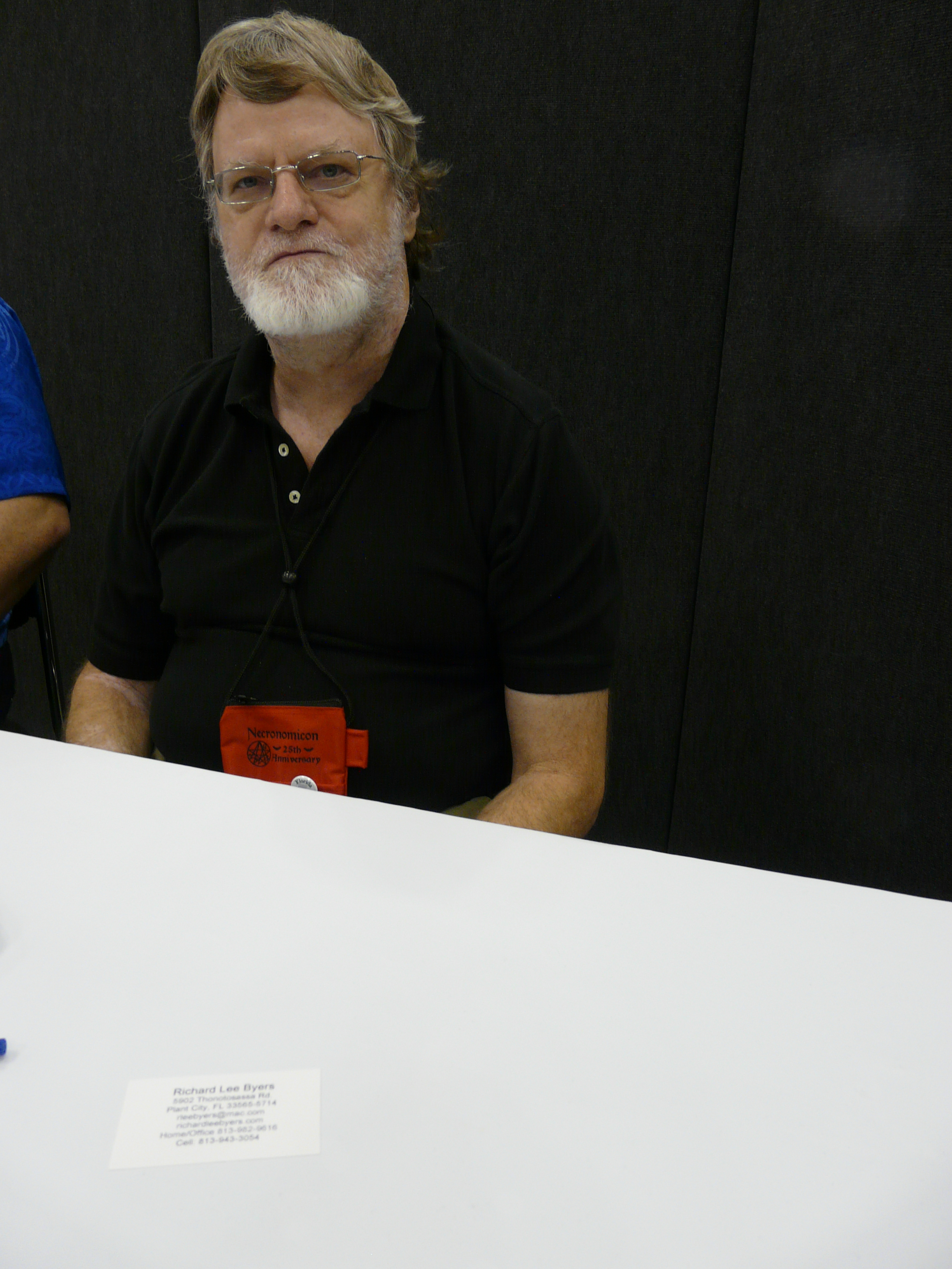 Picture of Gen Con Indy 2008 in Indianapolis, Indiana, USA. Richard Lee Byers